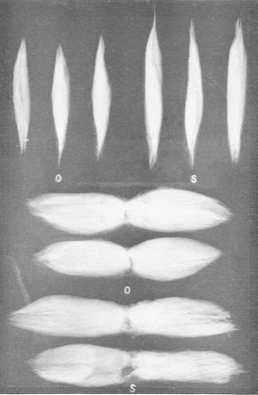 Improvement of Sea Island Cotton by selection: Original Type from which selection was made; S, increased length of Fibre. (7-8 natural size.)